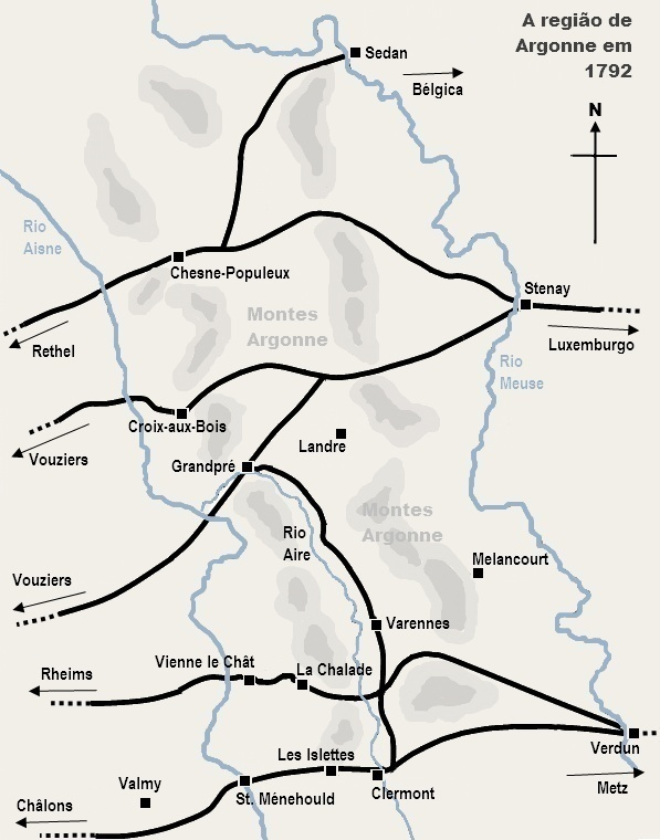 Map of Argonne Hills region.